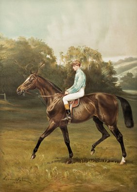 Lithograph of 1901 Epsom Derby winner Volodyovski. After painting by James Lynwood Palmer (1868-1941). Artist dead for 71 years.